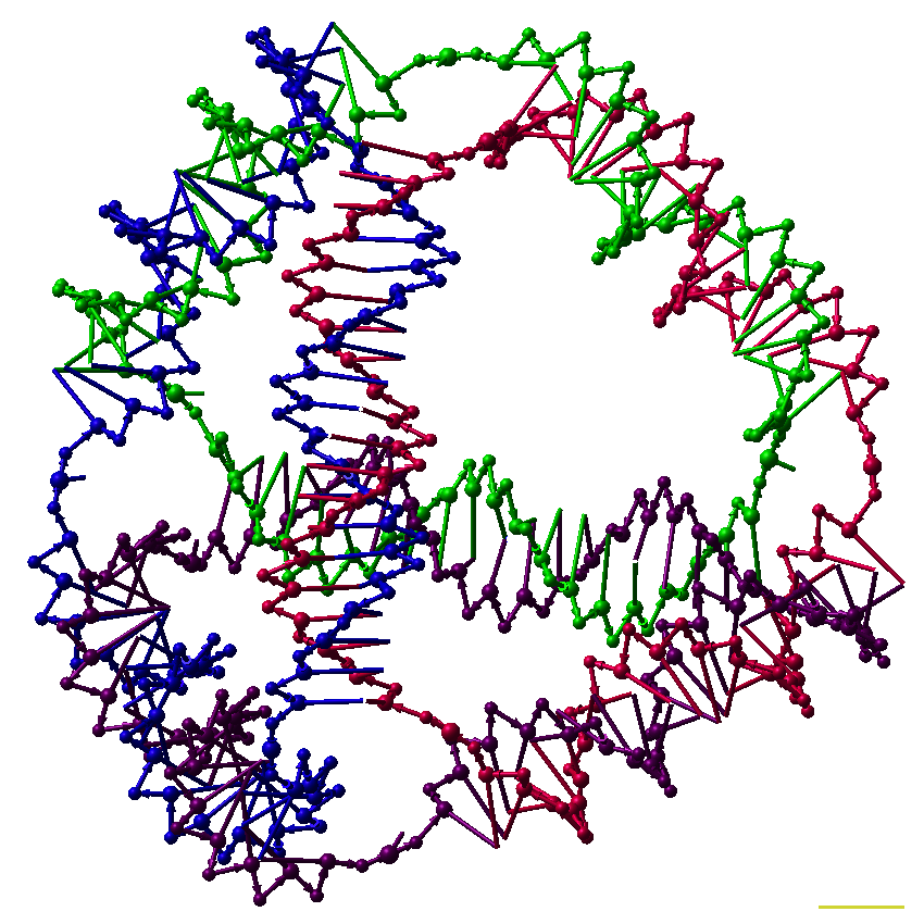 A model of a DNA tetrahedron. Each edge of the tetrahedron is a 20bp DNA duplex, and each vertex is a three-arm junction. In this model each basepair is represented by five pseudo-atoms, representing the two sugars, the two phosphates, and the major groove. The scale bar is 1 nm.